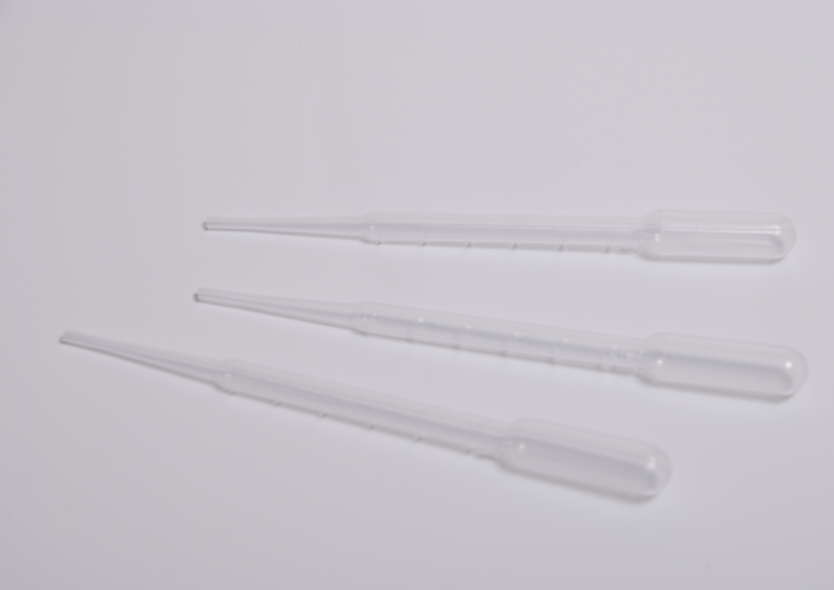 Disposable platic dropper